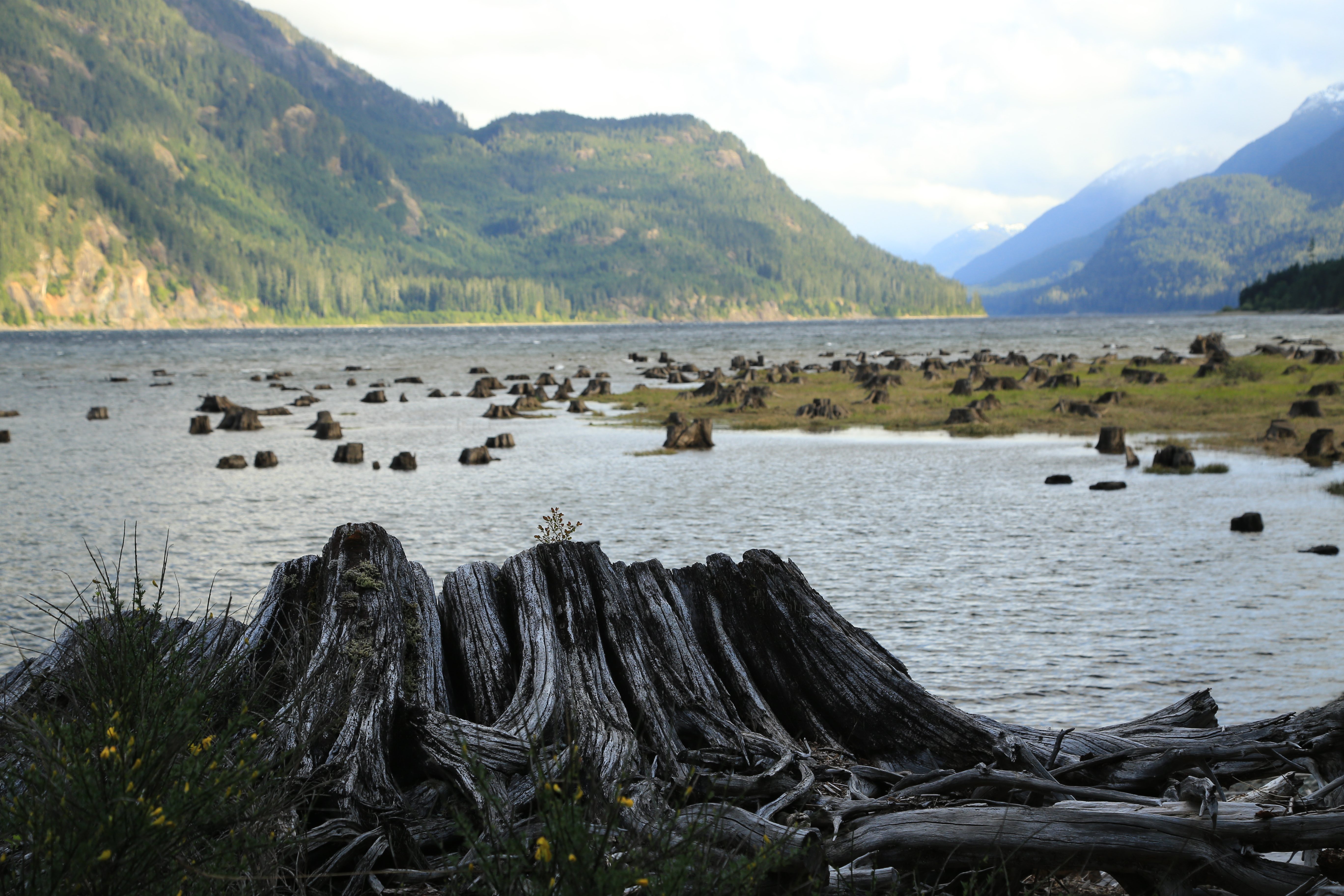 Buttle Lake region on Vancouver Island, Canada.